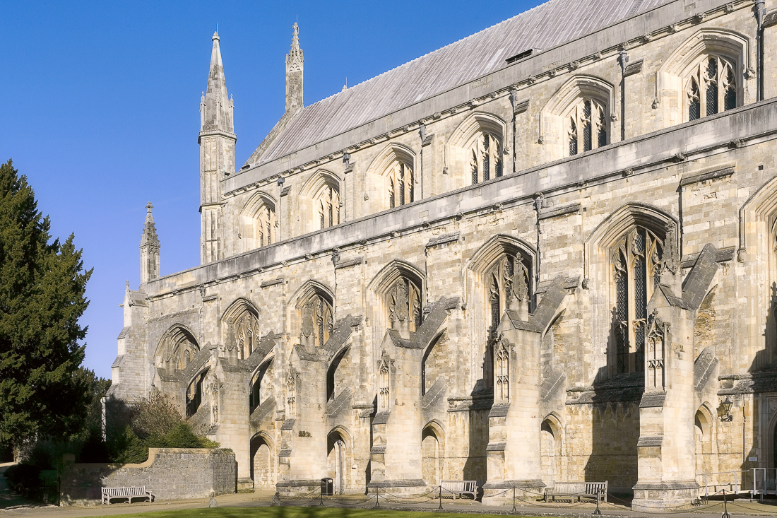 Winchester Cathedrals Flying Buttress' Aisle on south wall of nave.